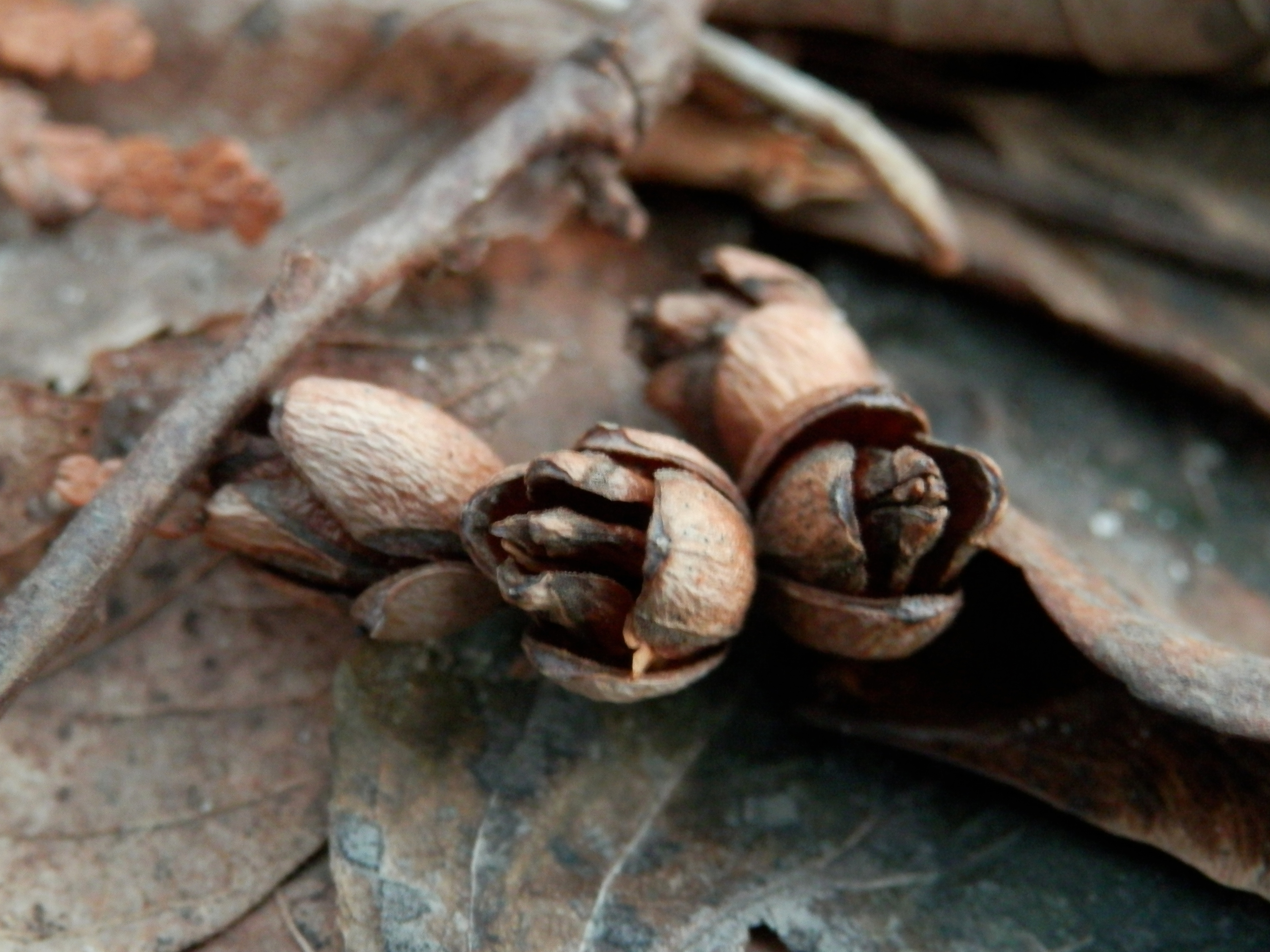 Eastern Whitecedar Thuja occidentalis cones lying in leaf litter in Guelph, Ontario, Canada.